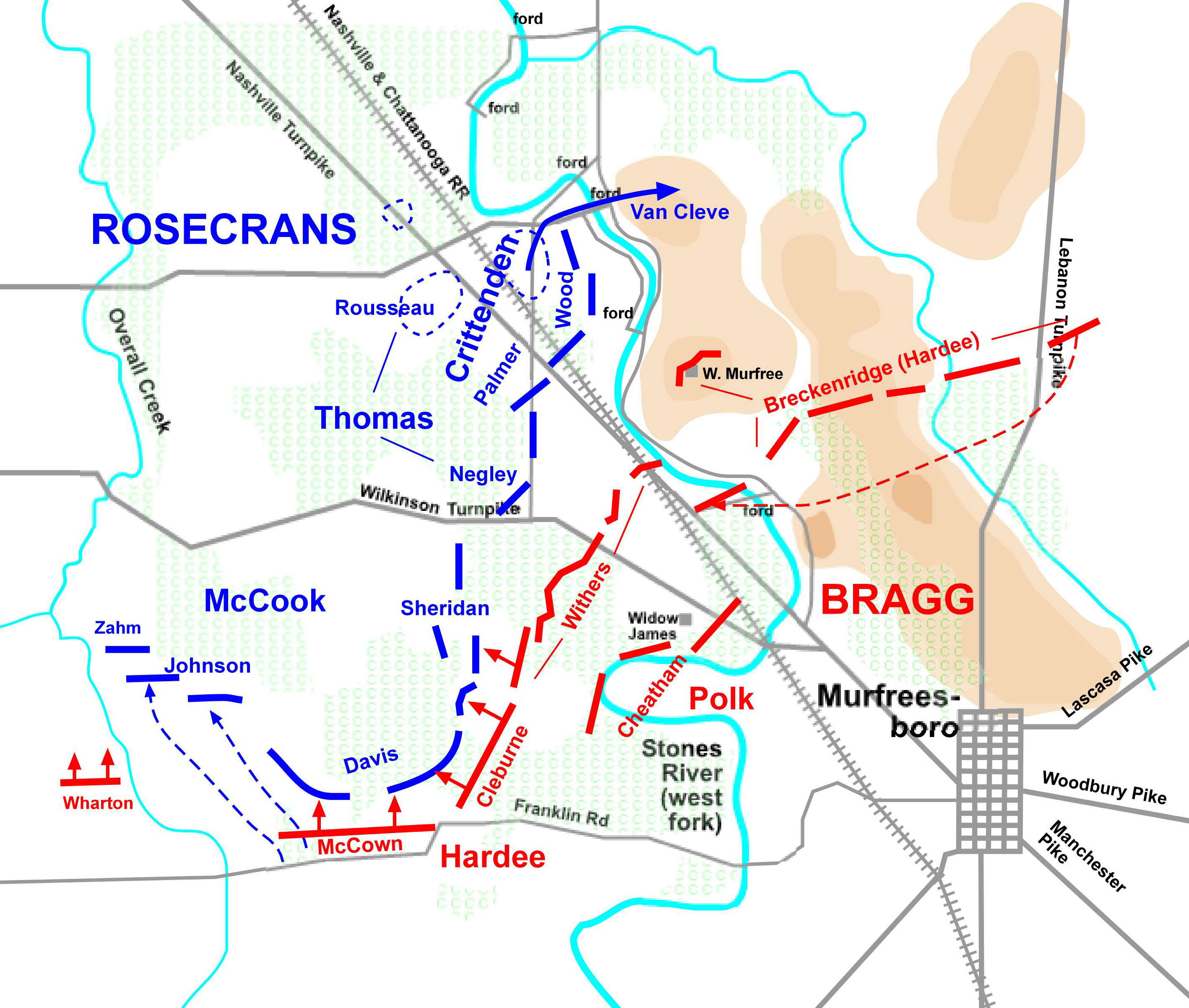 Battle of Stones River, 08:00 Dec 31, 1862. Drawn by Hal Jespersen in Macromedia Freehand. Source file available in